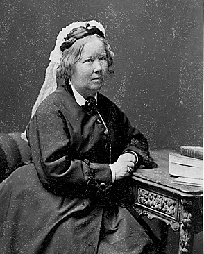 Cecilila Fryxell 1806-1883